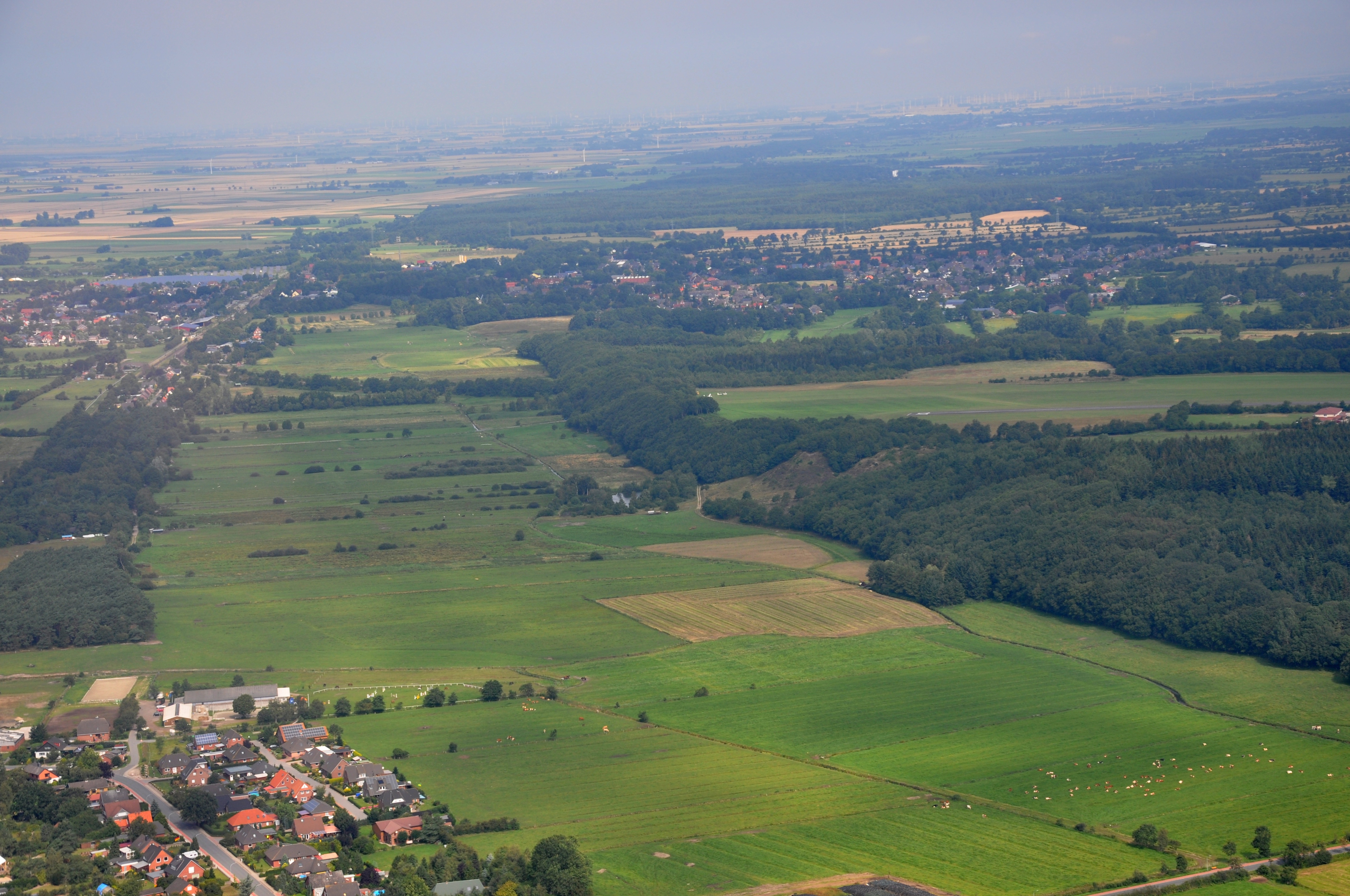 Sankt Michaelisdonn airport: Right base runway 07